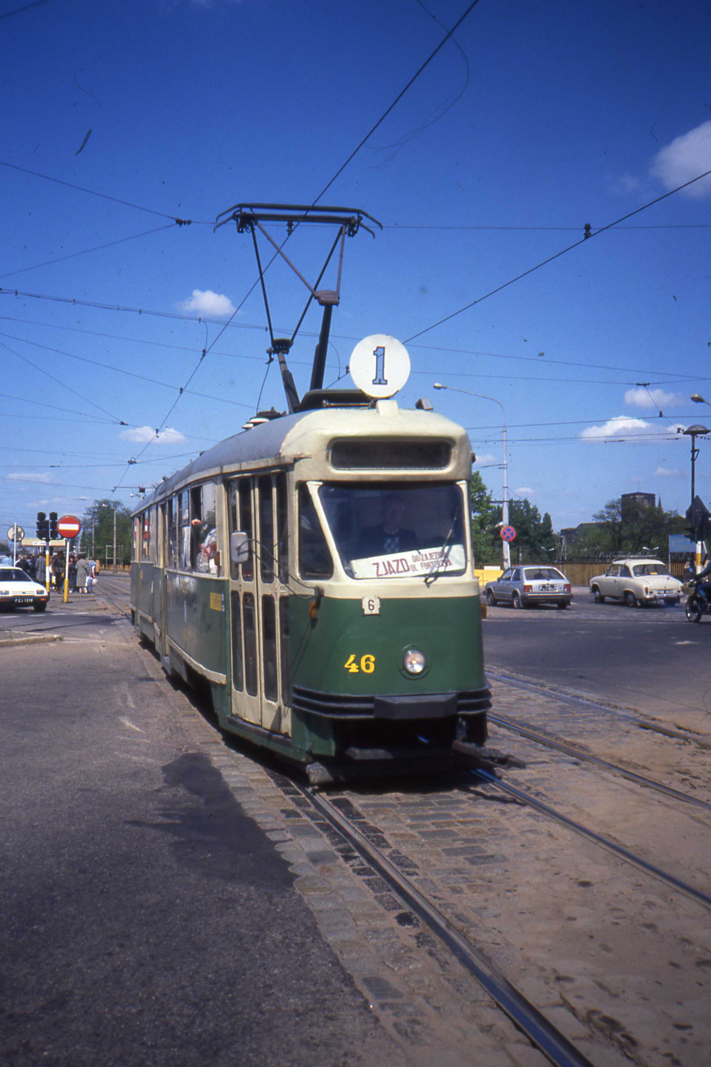 Konstal 102Na tram nr 46 was new in 1971 and lasted until 2002 albeit not in this fine green livery. Off to the right, a two-stroke FSM Syrena car.